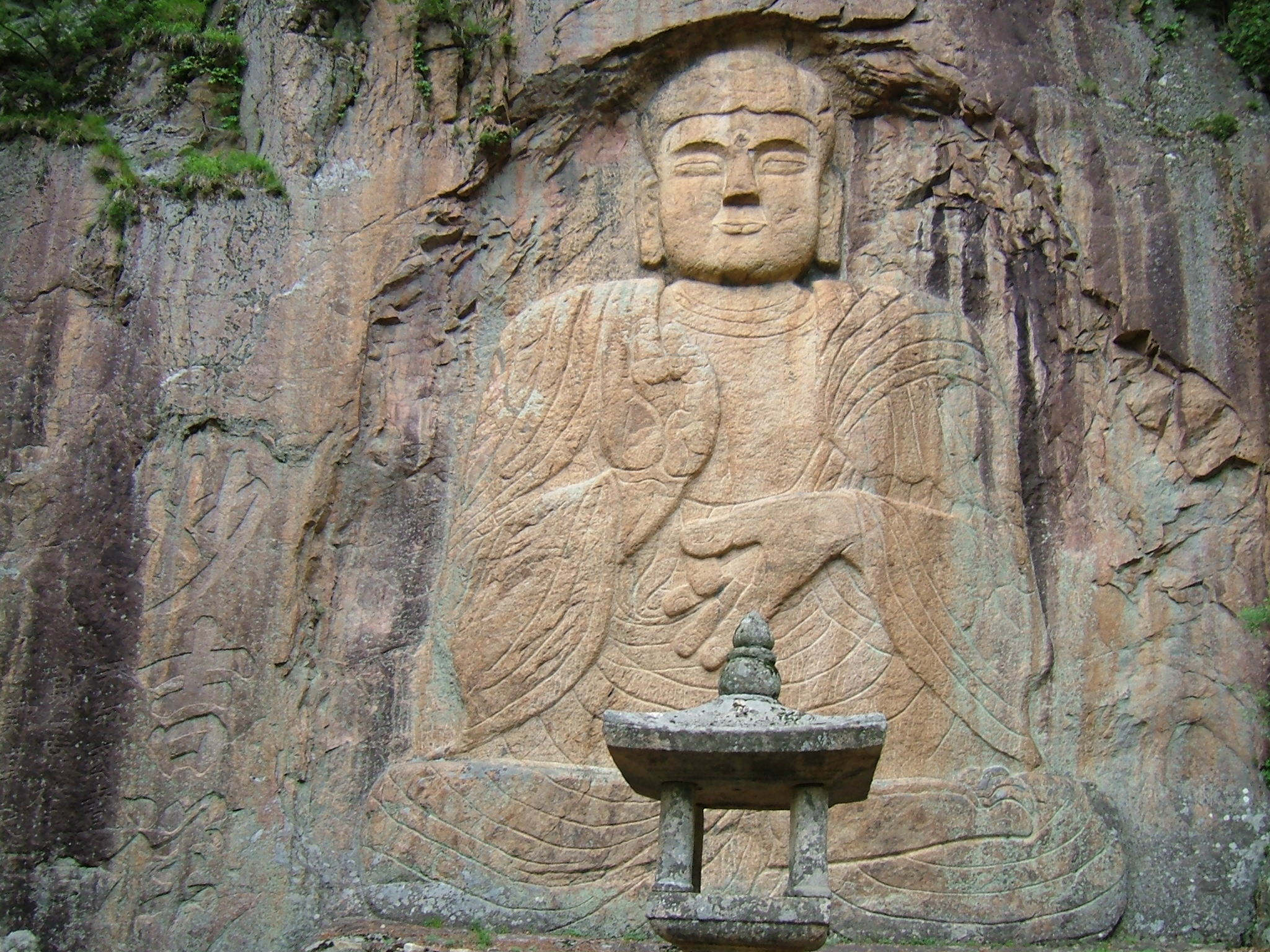 Myogilsang in Kumgangsan